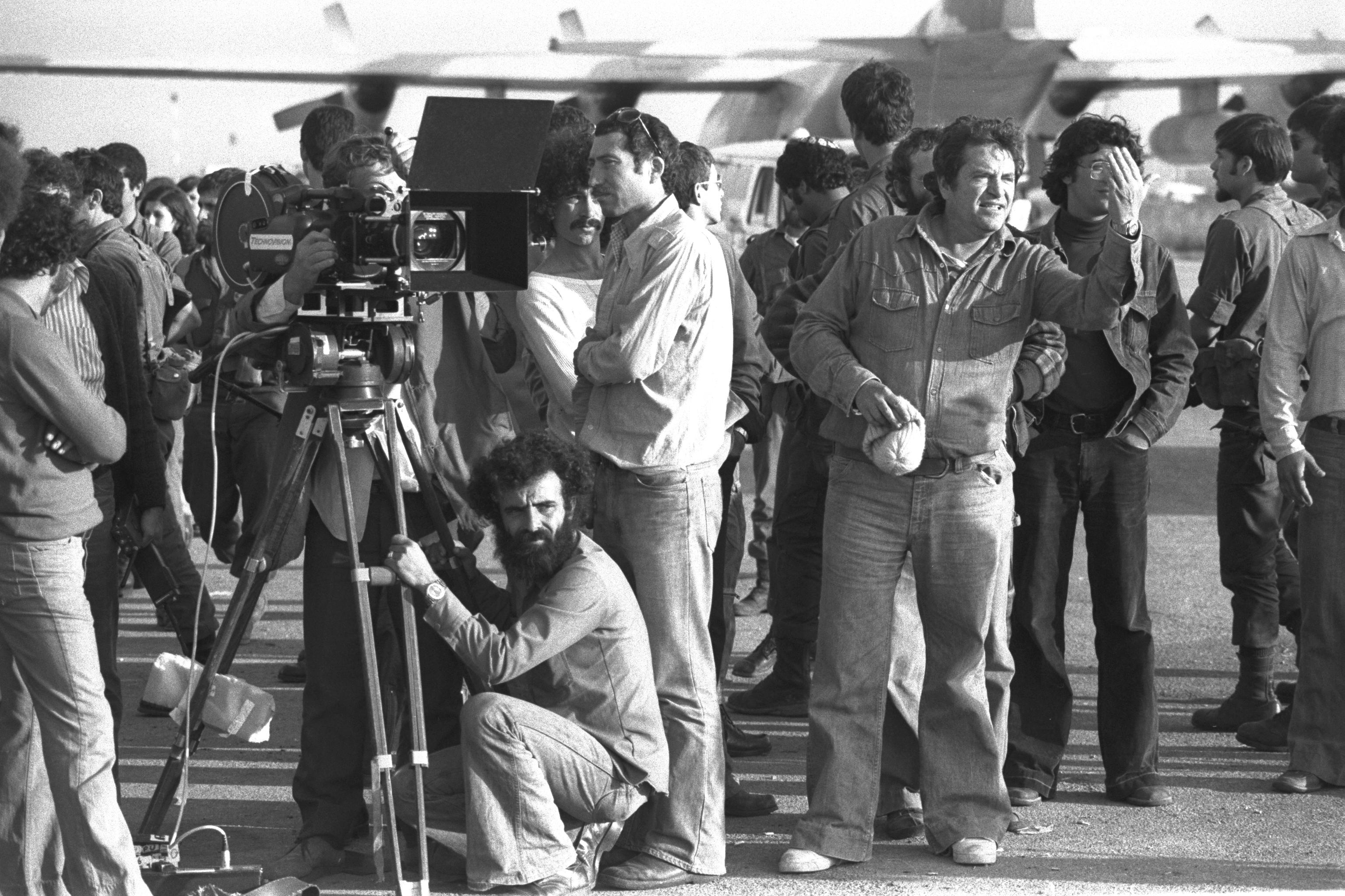 The set of Menahem Golan's film “Mivtsa Yonatan,” about the Entebbe rescue, at the Ben-Gurion Airport. סט הצילומים של הסרט, אנטבה, של הבמאי מנחם גולן Photo: Yaakov Saar (1951–) Alternative names SA'AR YA'ACOV; Jacob Saar; Saʻar, YaʻaḳovDescriptionIsraeli photographerDate of birth 1951 Authority control : Q28751896 VIAF: 298161188 NLI: 001394176 creator QS:P170,Q28751896 , 12/21/1976